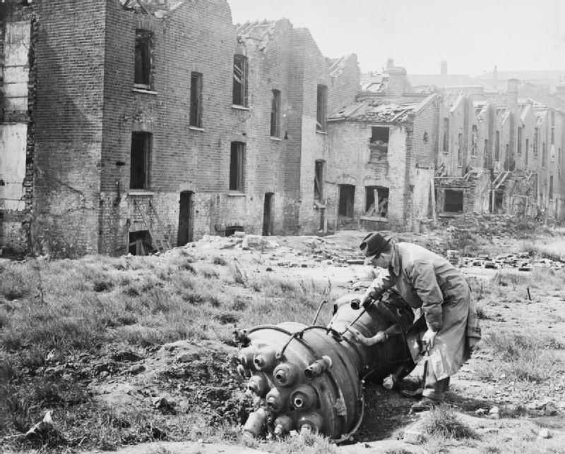 The London Blitz - V2 Rocket Bomb Incident at Chinatown, Limehouse, East London, March 1945 Damage caused by the V2. In the foreground, a man inspects the propulsion unit of a "V" rocket bomb.